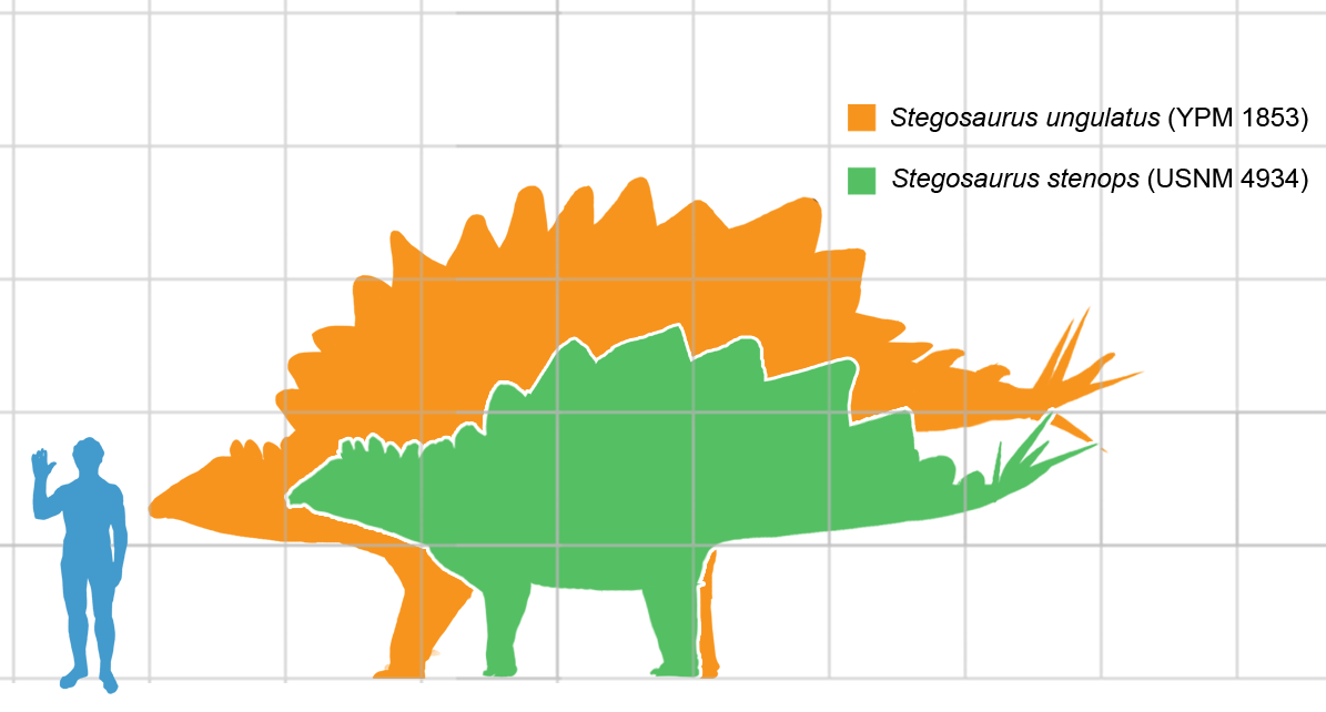 Size of Stegosaurus ungulatus compared to a human. Scaled based on information and diagrams provided in Galton, P. (2010). Species of plated dinosaur Stegosaurus (Morrison Formation, Late Jurassic) of western USA: new type species designation needed. Swiss J Geosci, 103: 187–198.